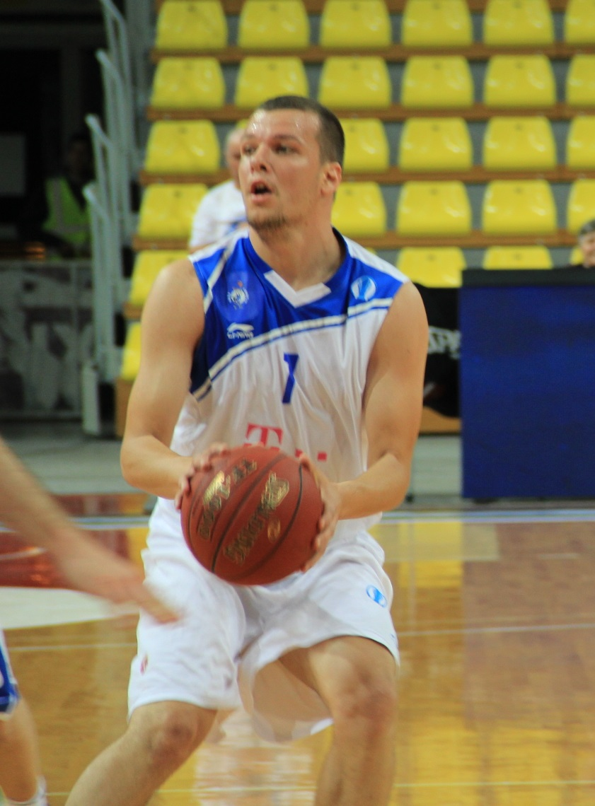 костовскимзтевк